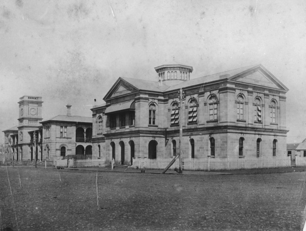 Court House building, Toowoomba, ca. 1884. The Court House is in the foreground and the Post Office is the building with the clock tower.